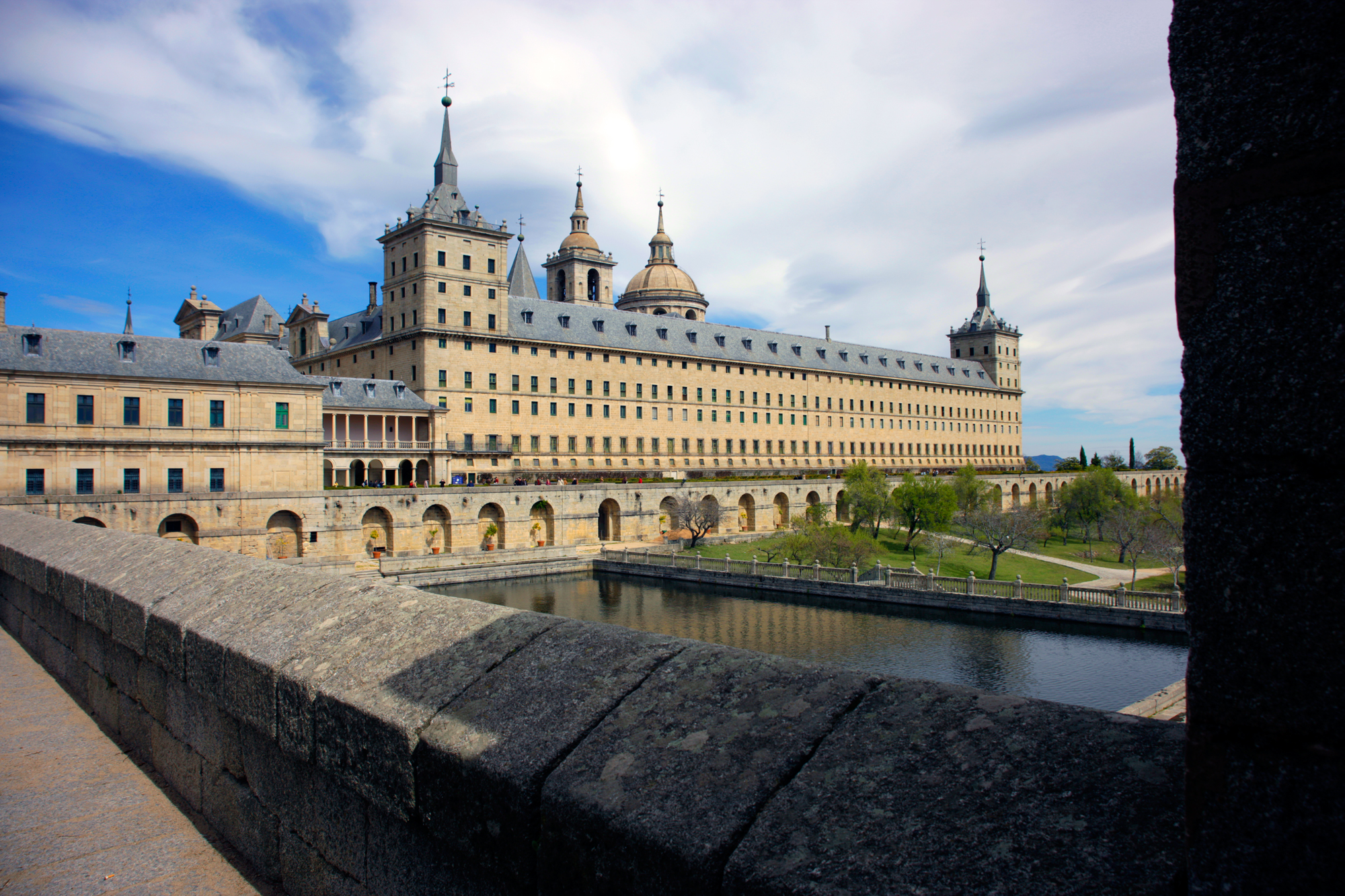 Monastery of San Lorenzo de El Escorial, South front